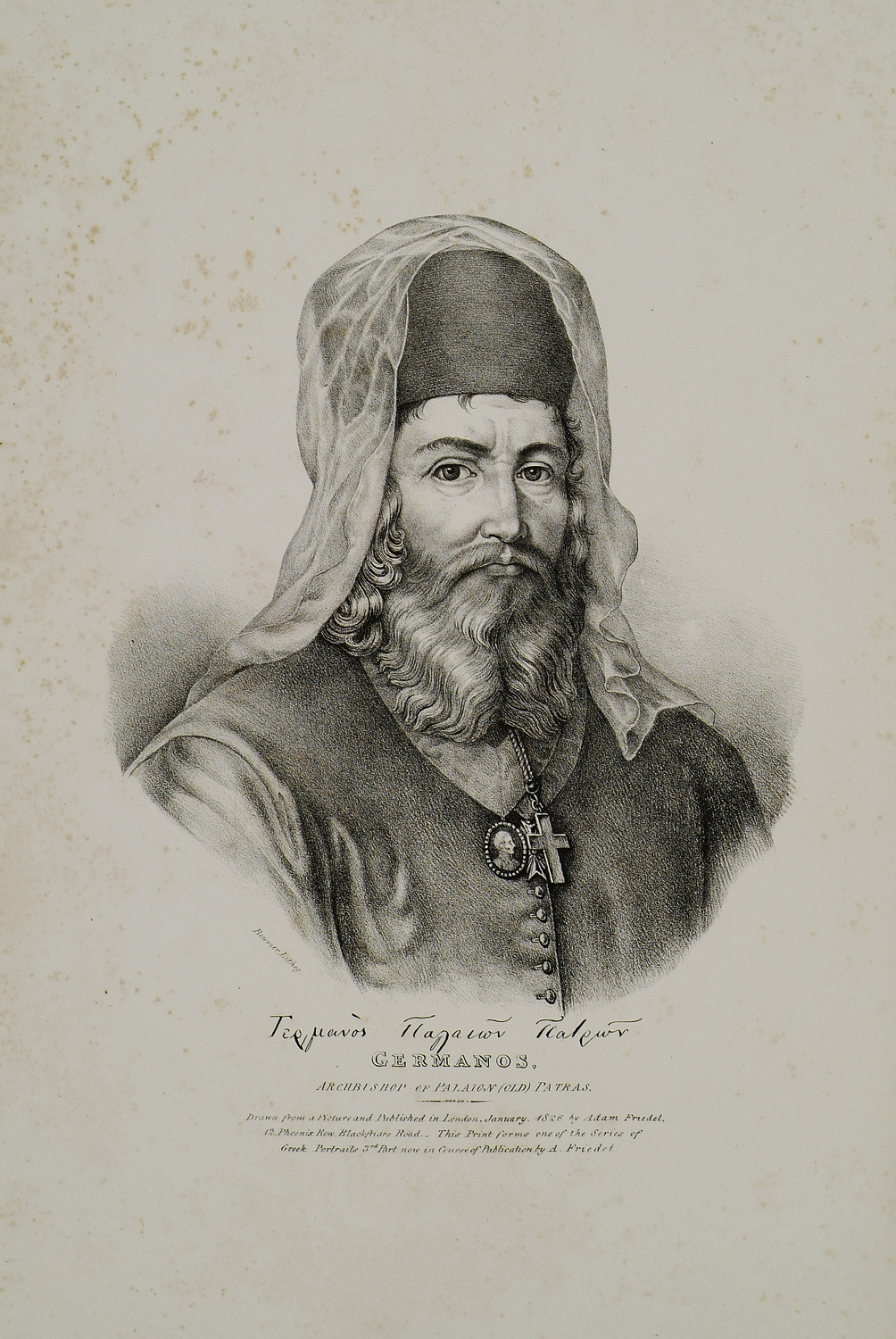 Adam de Friedel. The Greeks, Twenty-four Portraits of the principal Leaders and Personages who have made themselves most conspicuous in the Greek Revolution, from the Commencement of the Struggle, London, Adam de Friedel, 1830.